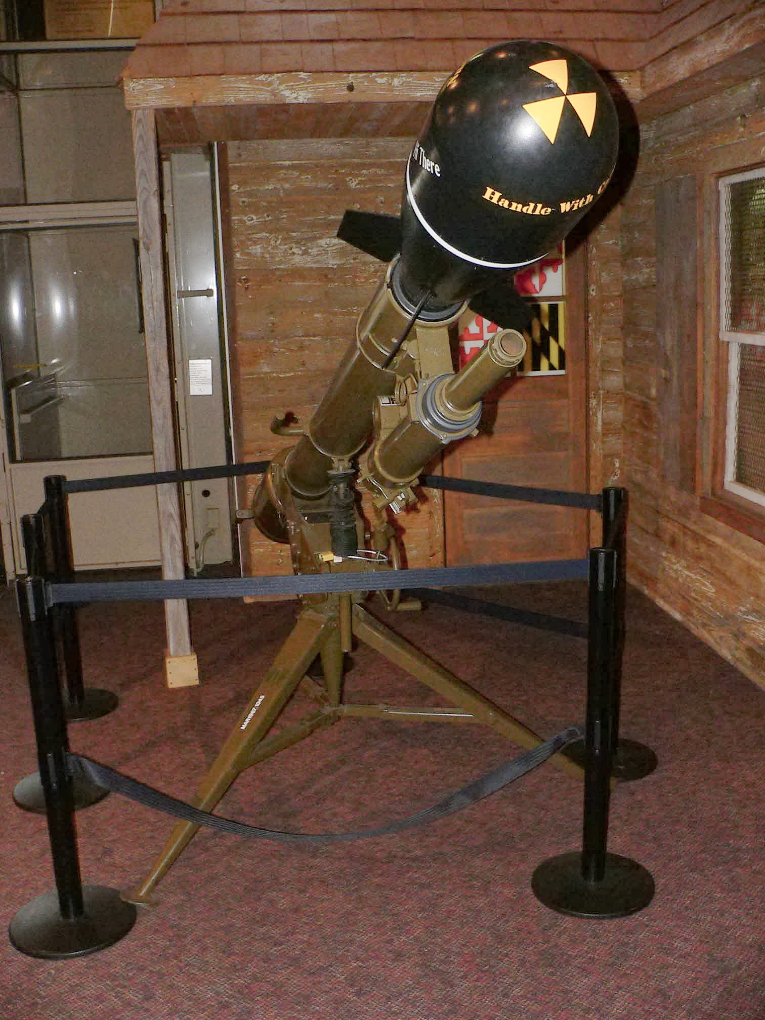 Picture taken by myself, Mark Pellegrini, at the United States Army Ordnance Museum (Aberdeen Proving Ground, MD) on August 14, 2007.